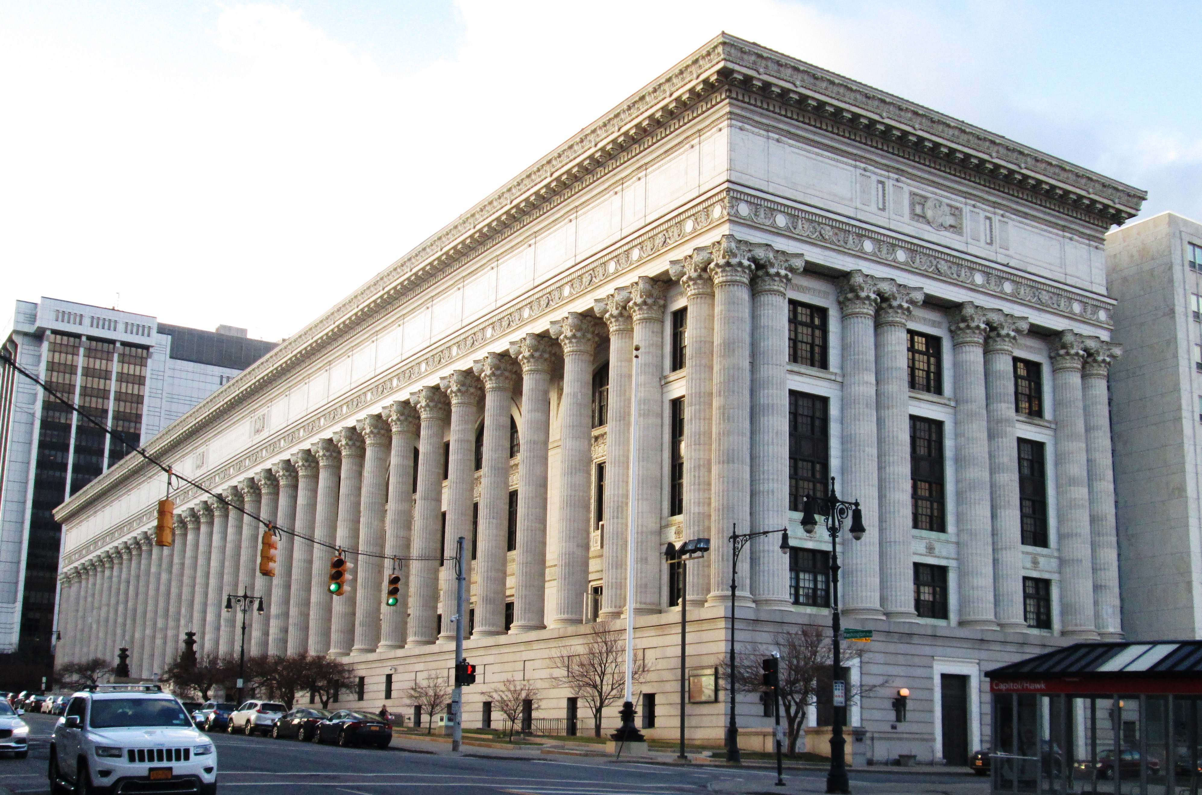 The New York State Education Building located at 89 Washington Avenue between Hawk and Swan Streets in Albany, New York, was built between 1908 and 1911, and was designed by Henry Hornbostel in the Beaux-Arts style. It was added to the National Register of Historic Places in 1971. It is the headquarters to the New York State Education Department. One Commerce Plaza can be seen in the background.